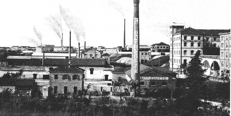 Ice factory in Verona in about 1910